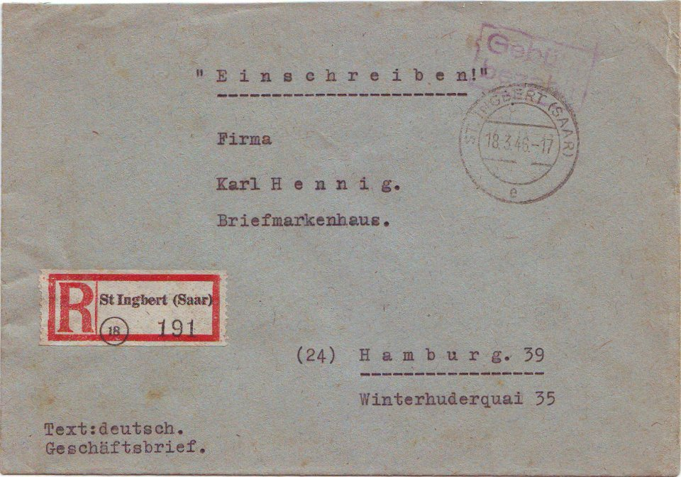 Registered letter from St. Ingbert (Saarland, Germany) to Hamburg (Germany), 18 March 1946. Because of a shortage of stamps the postage has been paid in cash. Rubber stamp ‘Gebühr bezahlt’ (‘Postage Paid’).